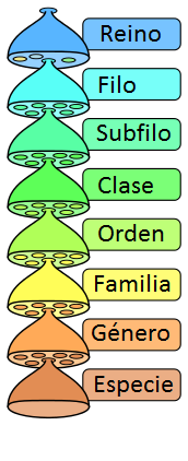 Subfilum Subphylum